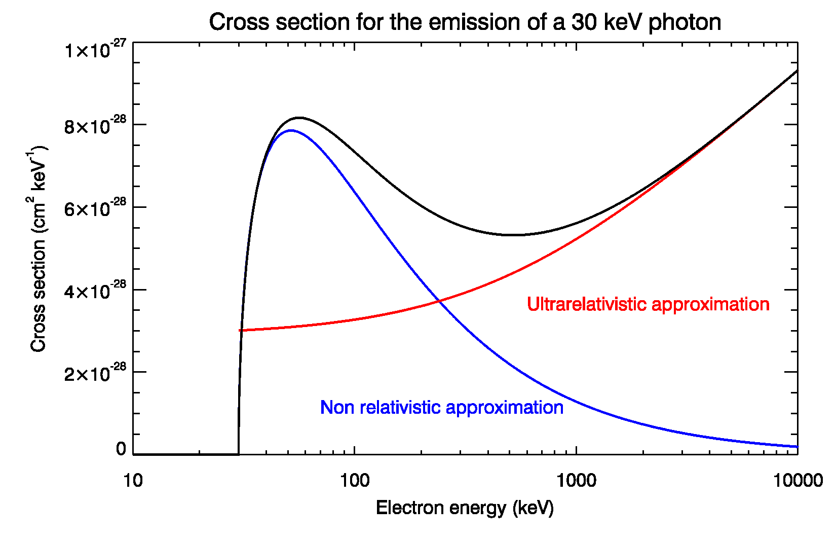 Bremsstrahlung cross section for the emission of a photon with energy 30 keV by an electron impacting on a proton.